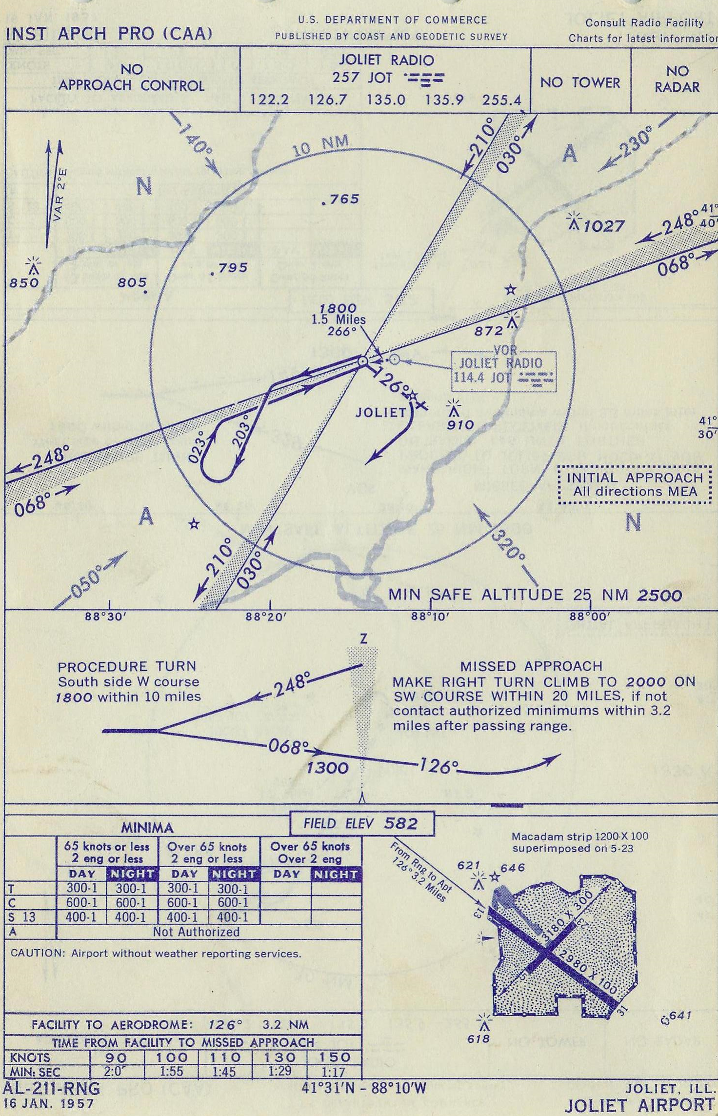 Joliet, IL LFR approach chart